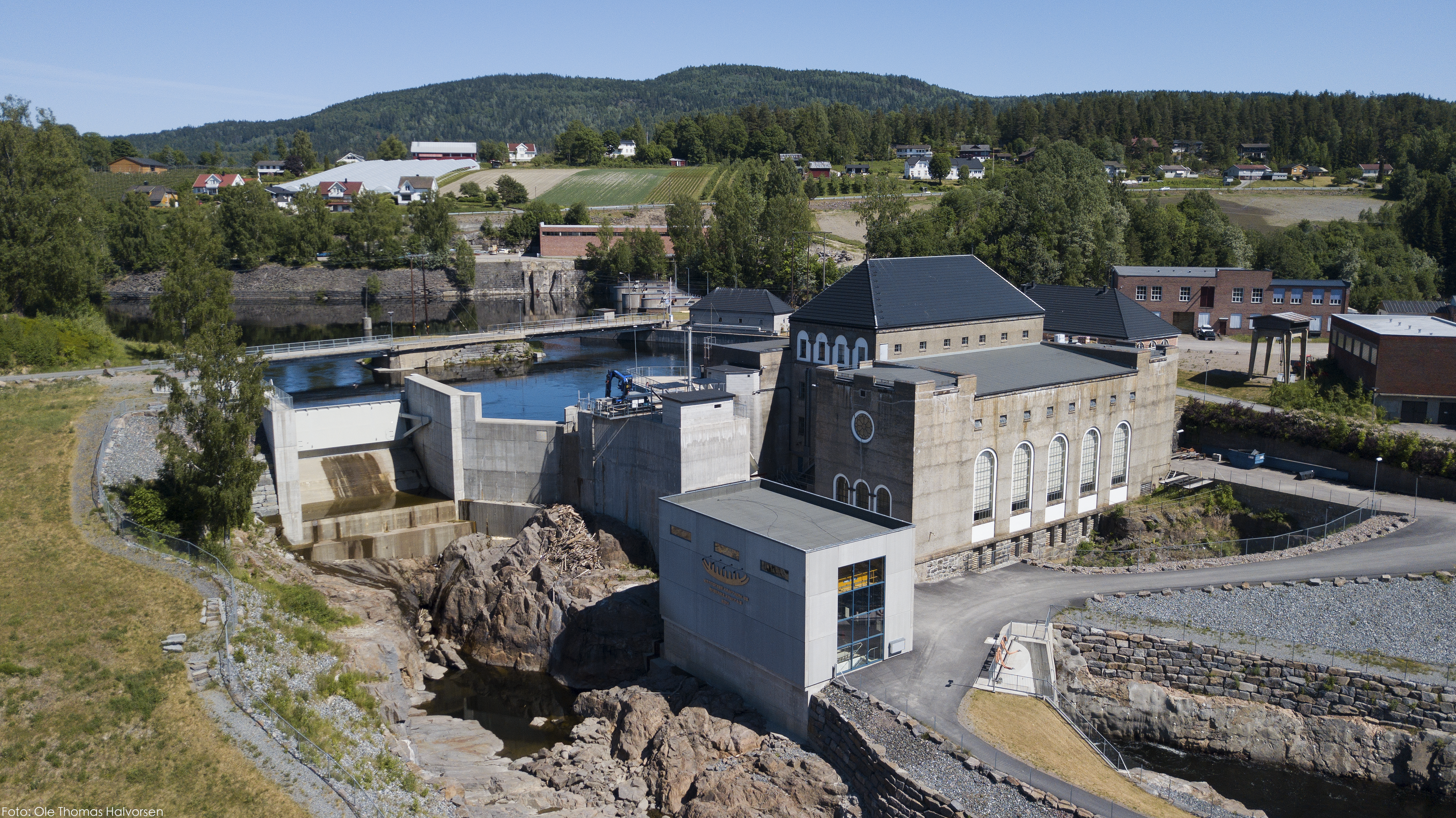 Vittingfoss kraftverk 2018